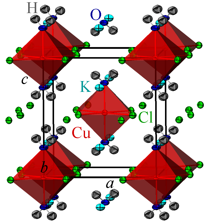 Crystal structure of mitscherlichite K2CuCl4.2H2O. Red: Cu2+, cyan: K+, gray: H+, green: Cl-, blue: O2